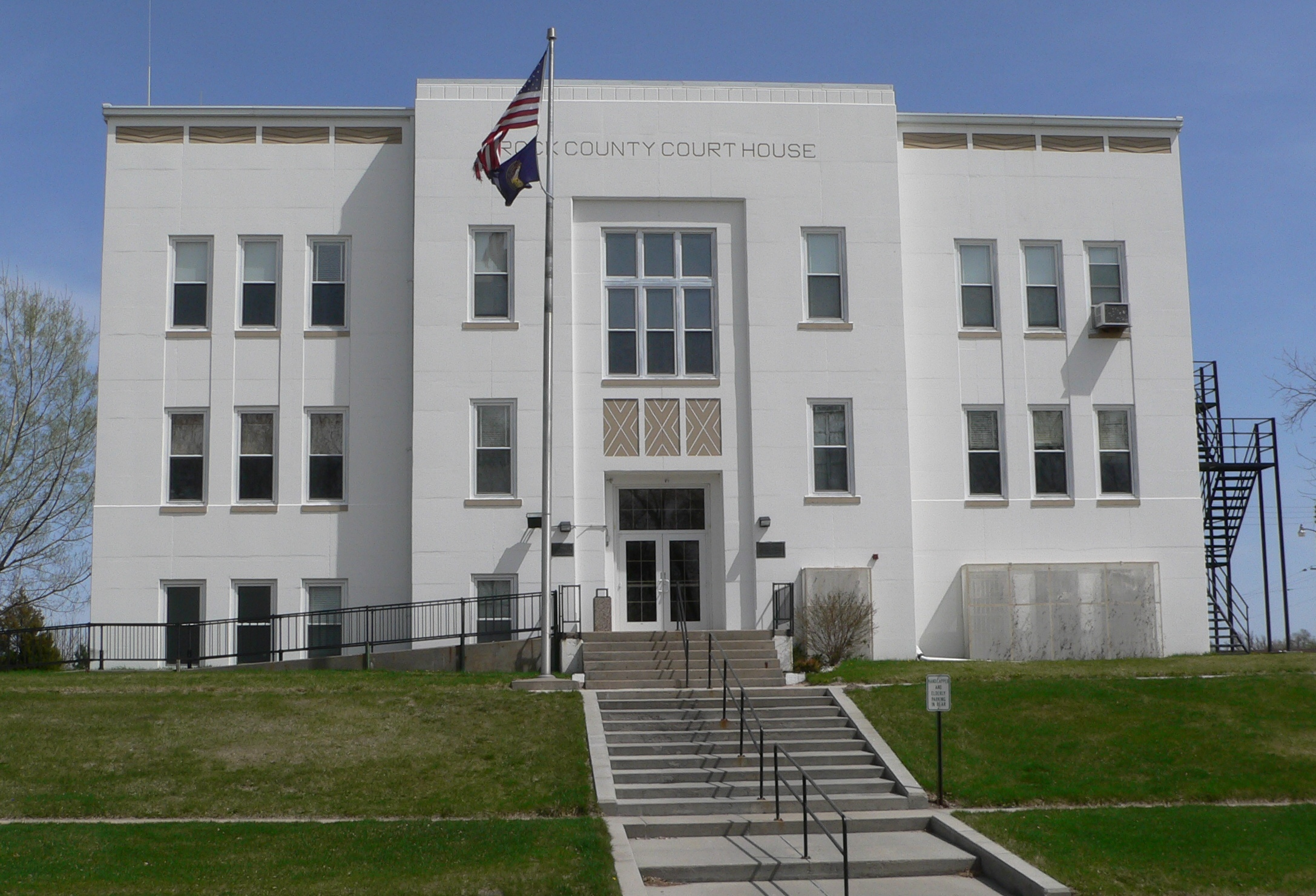 Rock County Courthouse in Bassett, Nebraska; seen from the west. The Art Deco building was constructed in 1940, and is listed in the National Register of Historic Places.